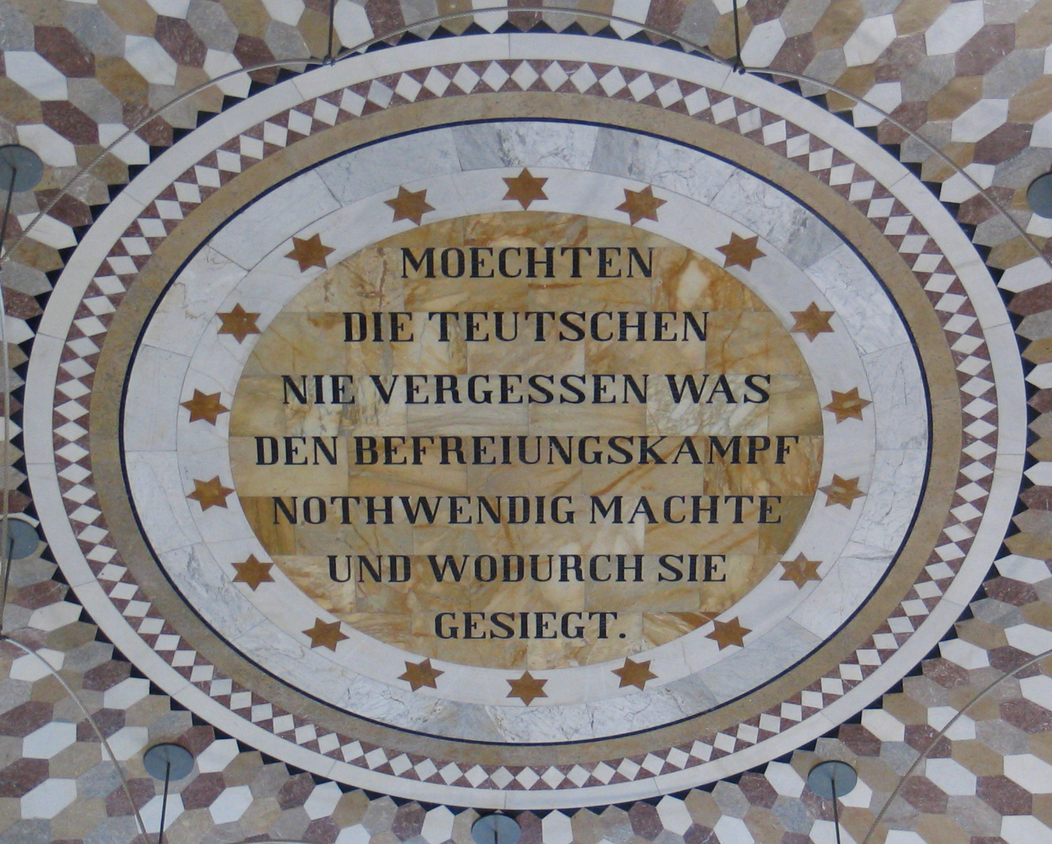 Boden Befreiungshalle Kelheim, Bayern, Deutschland.